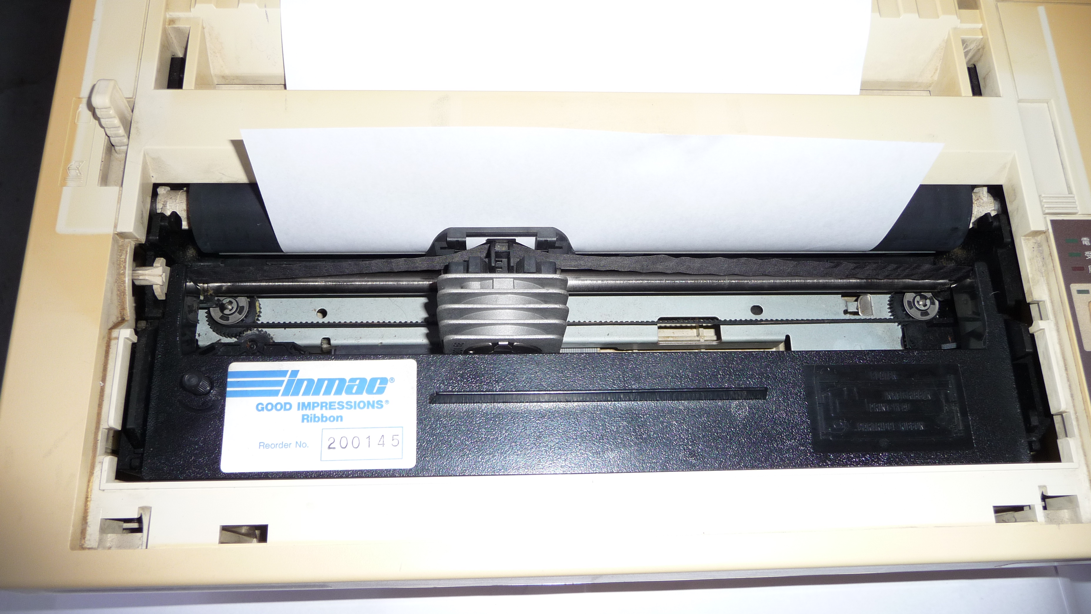 The cover removed (for photo shot), Dot matrix printer Impact type. EPSON VP-500 sold in 1989. 80 character/line, Speed: 67 character/second. Centronics IEEE 1284 interface. ASCII and Japanese character set up to Kanji. Print head with 43 x 43 X 22mm size heat sink. ESC/P 24-J84, Inmac ink ribbon cartridge with black ink.